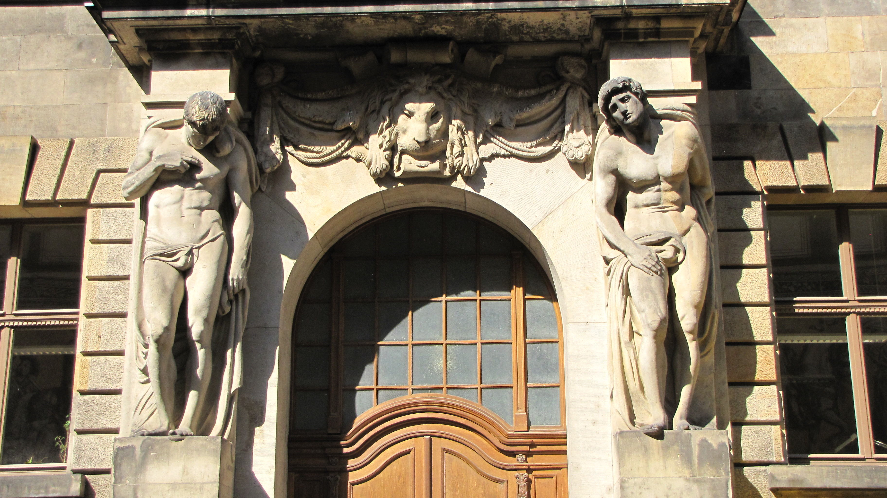 Karyatiden